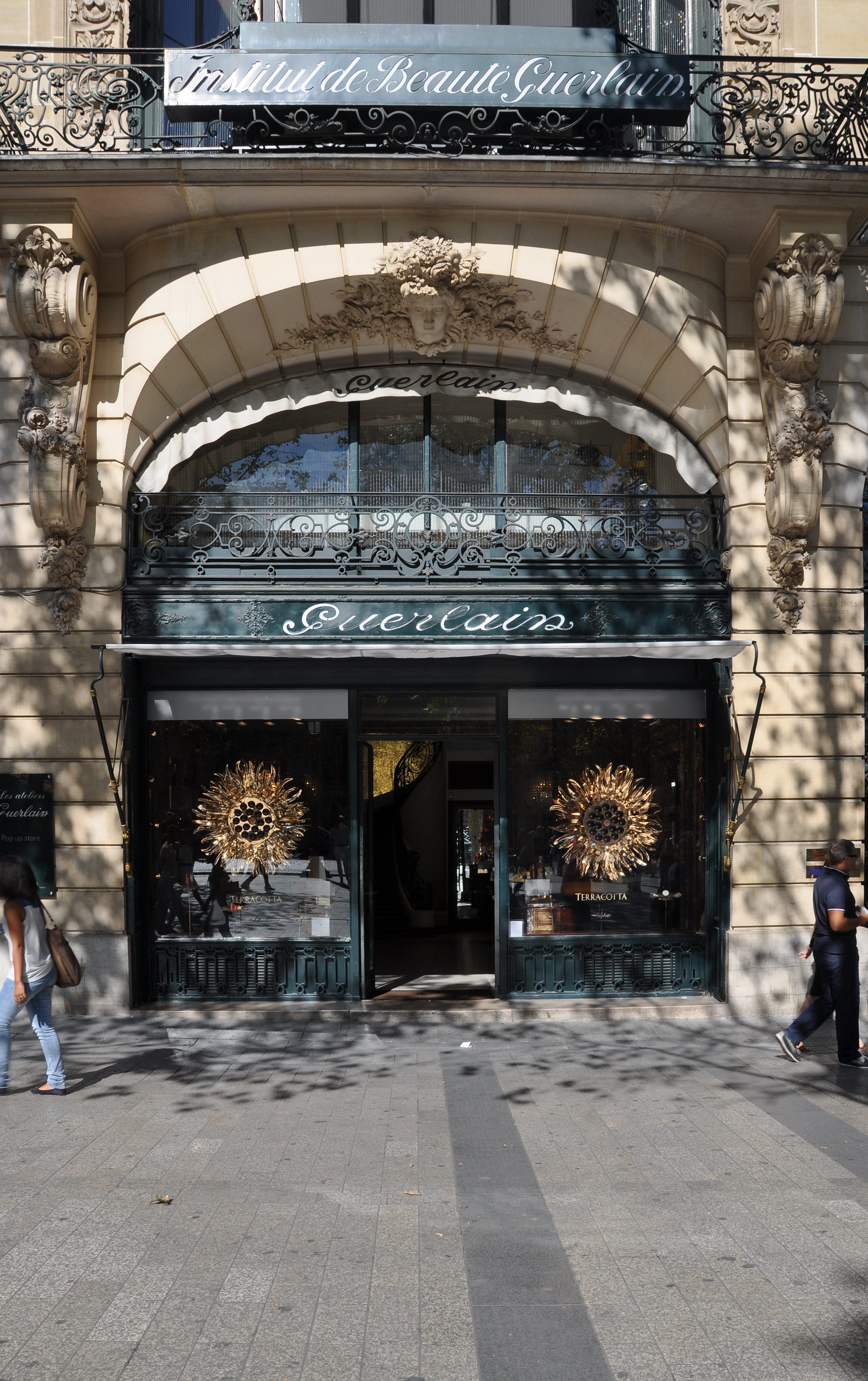 Main entrance of the building located at 68 avenue des Champs-Élysées in the 8th arrondissement of Paris in France. Built in 1914 for perfumers Jacques and Pierre Guerlain and registered historical monuments by the French Ministry of Culture.